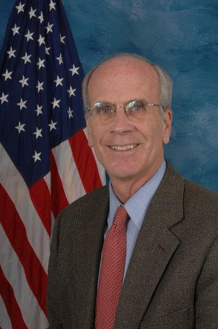 Peter Welch, member of the United States House of Representatives.